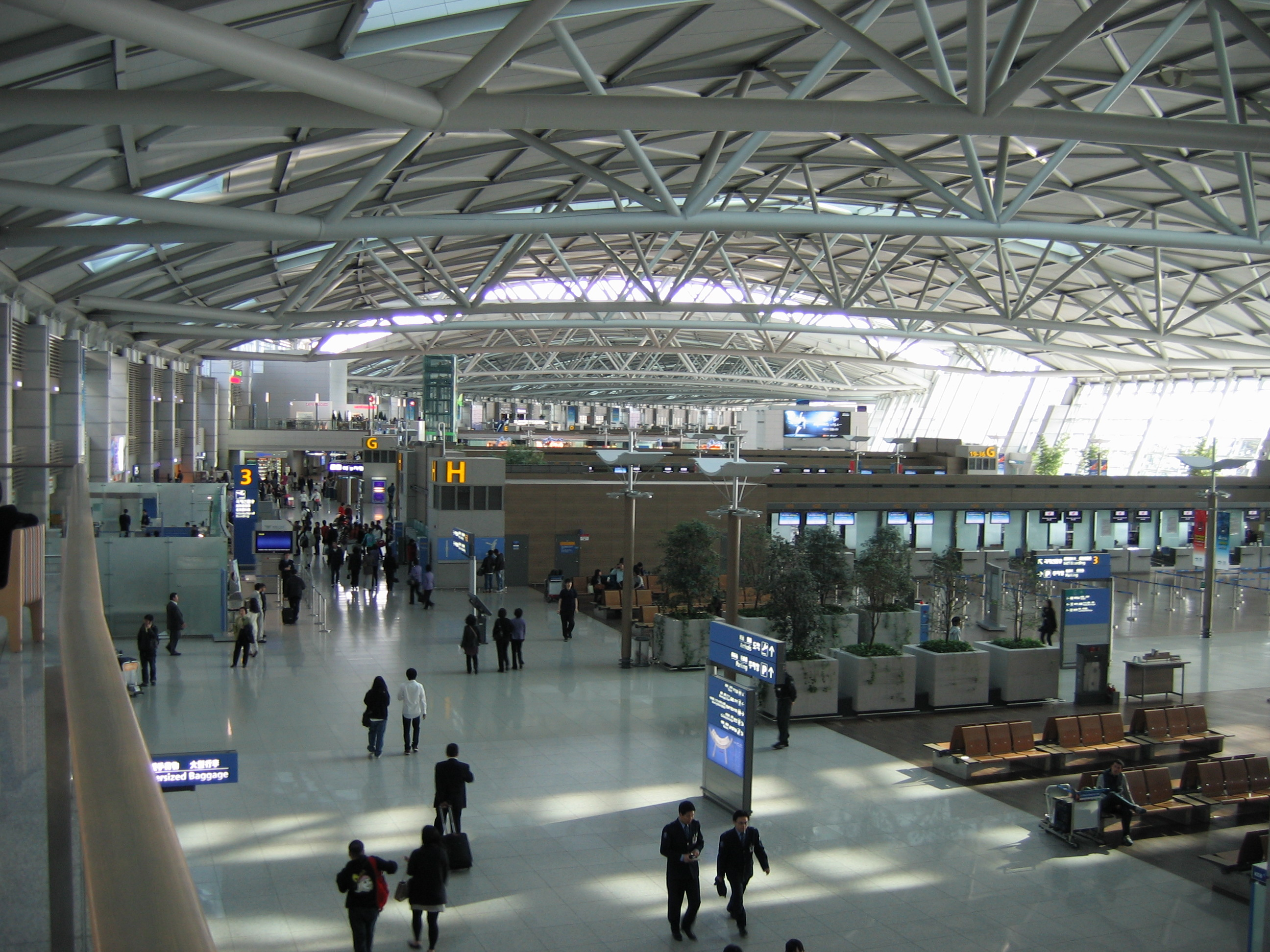 Incheon International Airport